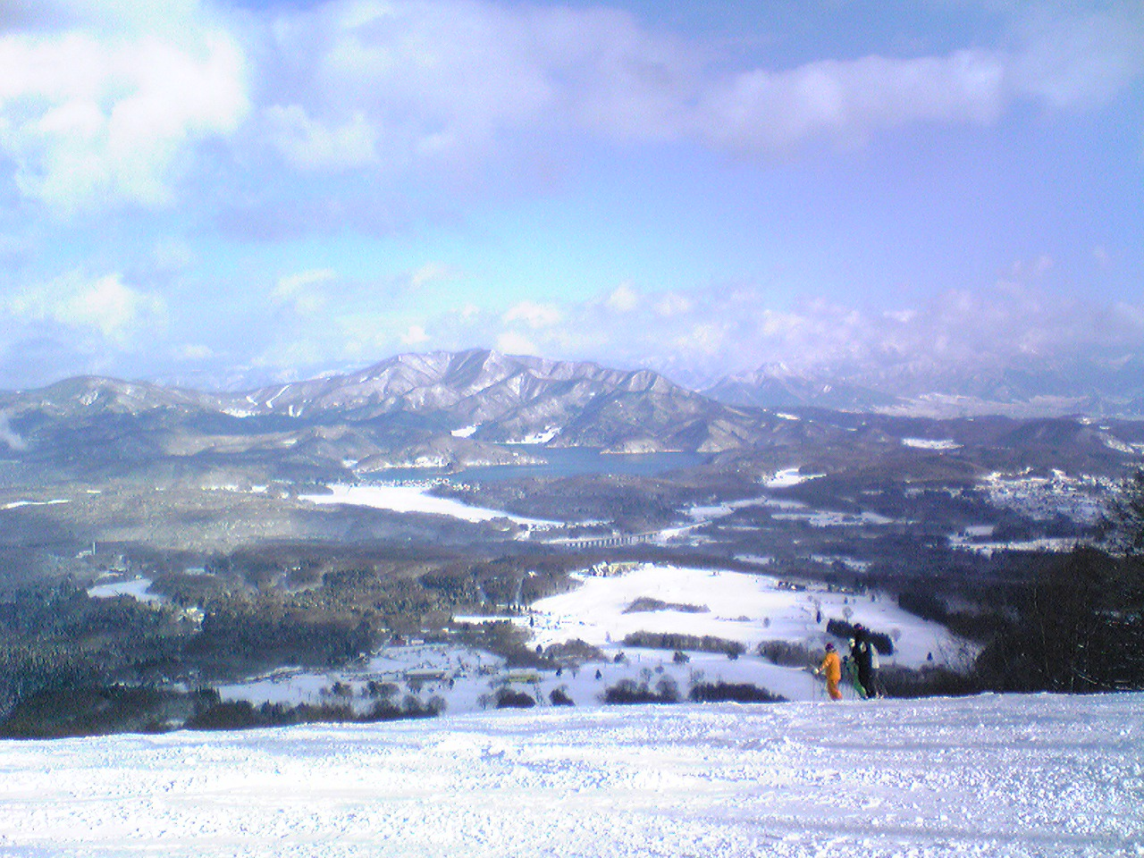 View of Kurohime-kogen Snow Park. Mount Madarano in the back.